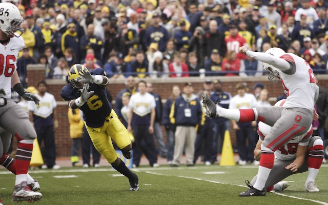 Donovan Warren attempts to block a Devin Barclay kick.